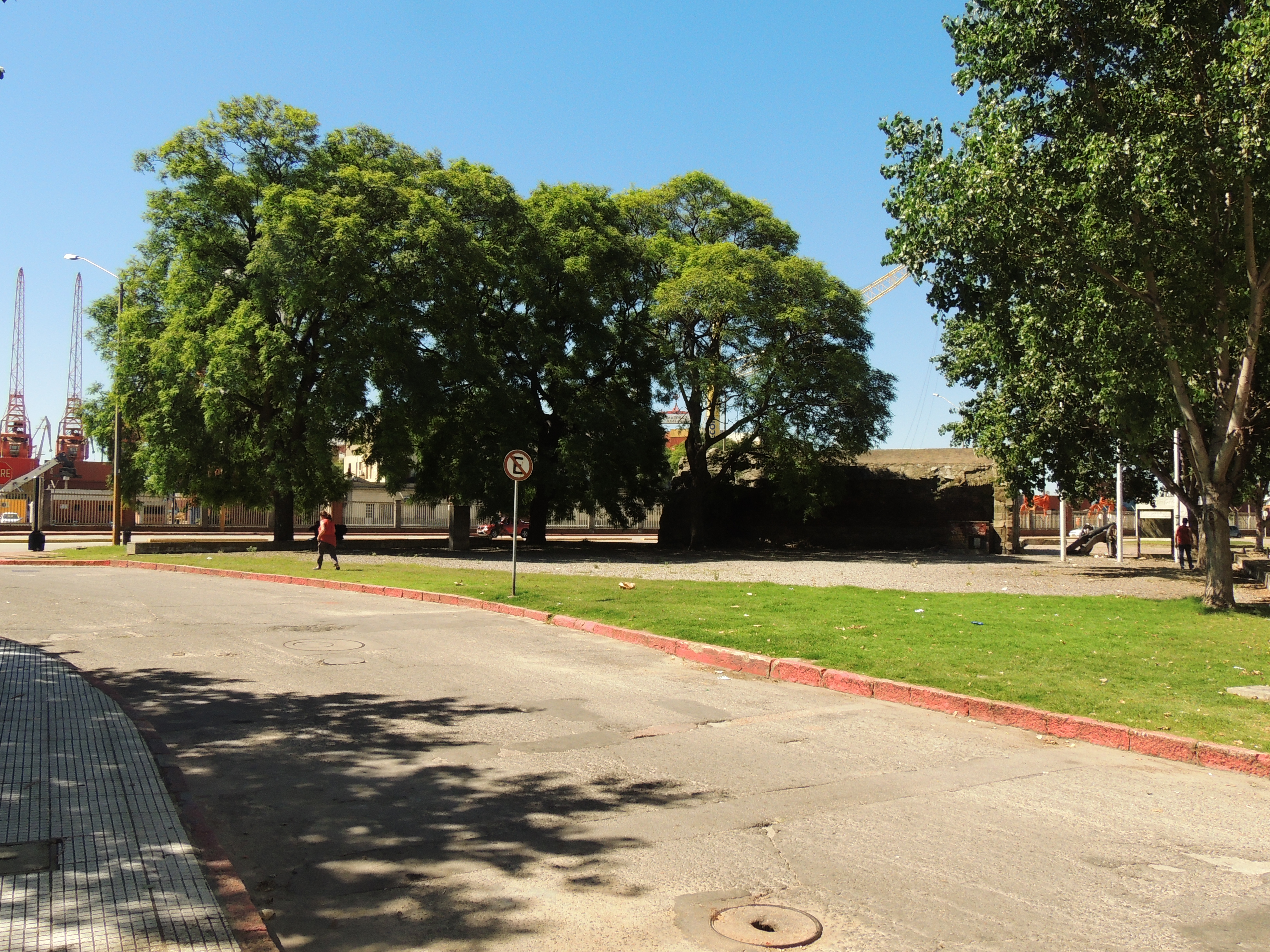 Parque Lineal Portuario Rambla 25 de Agosto de 1825 in Montevideo, Uruguay.